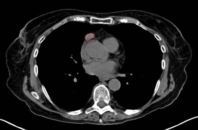 Thymoma, Stage IIA. CT scan, axial